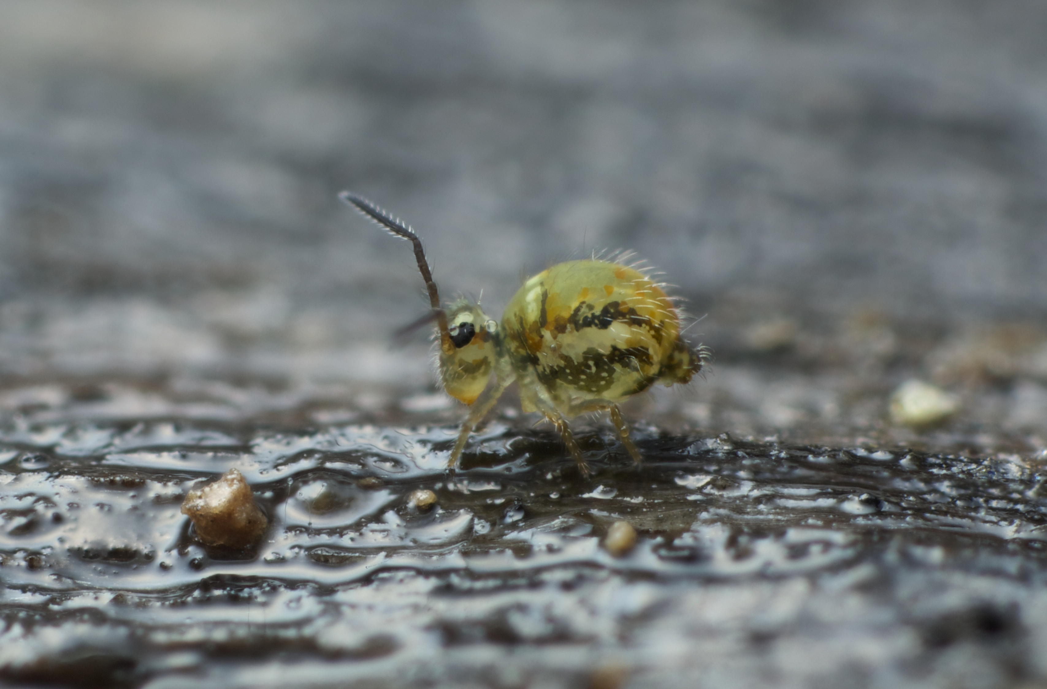 Probably Katianna oceanica Original description on Flickr: This I found in the depths of the Tarkine wilderness in a Myrtle forest. In Tasmania, this is the classic cool temperate type of rainforest, easily destroyed by fire, as opposed to a wet sclerophyll forest which has a mix of Eucalypt species combined with a mixed rainforest understory. This comes about as a response to fire or logging. Sadly, this is also one of the best Tasmanian environments to find a high invertebrate population. A pure rainforest is not particularly ecologically diverse, but rather wonderful. Happily looking for Collembola beneath enormous towering myrtles and tree ferns has to be one of the most wonderful times of my life so far! In the forest where I was, it was a typical one, of Myrtle and Sassafras, tree ferns and that was pretty much it. Fire over millions of years, plus a glacial period 22,000 years ago has probably made many more typical tree species extinct. It's a lot harder finding springtails in a real temperate rainforest, but if you do, it can often be some rather interesting ones, such as a beautiful, large, flattened Tasmanura species I found a few weeks ago, covered in tiny tubercles. This Katianna species in the main photo and comments is actually common in both forests and grassland in Tasmania however!